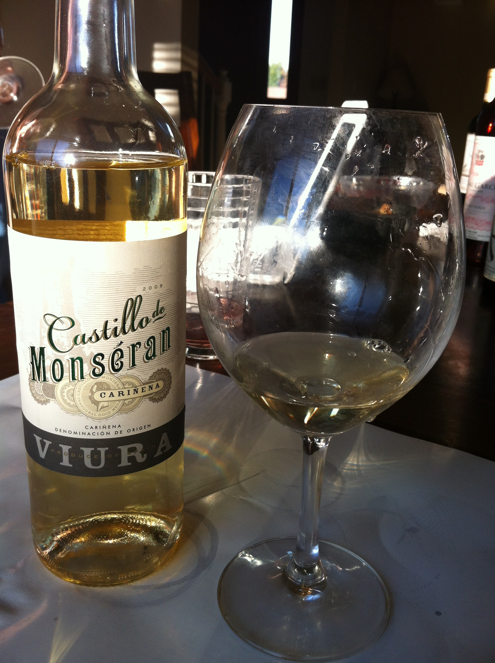 Spanish white wine from the Aragon region of Carinena made from the Viura grape.